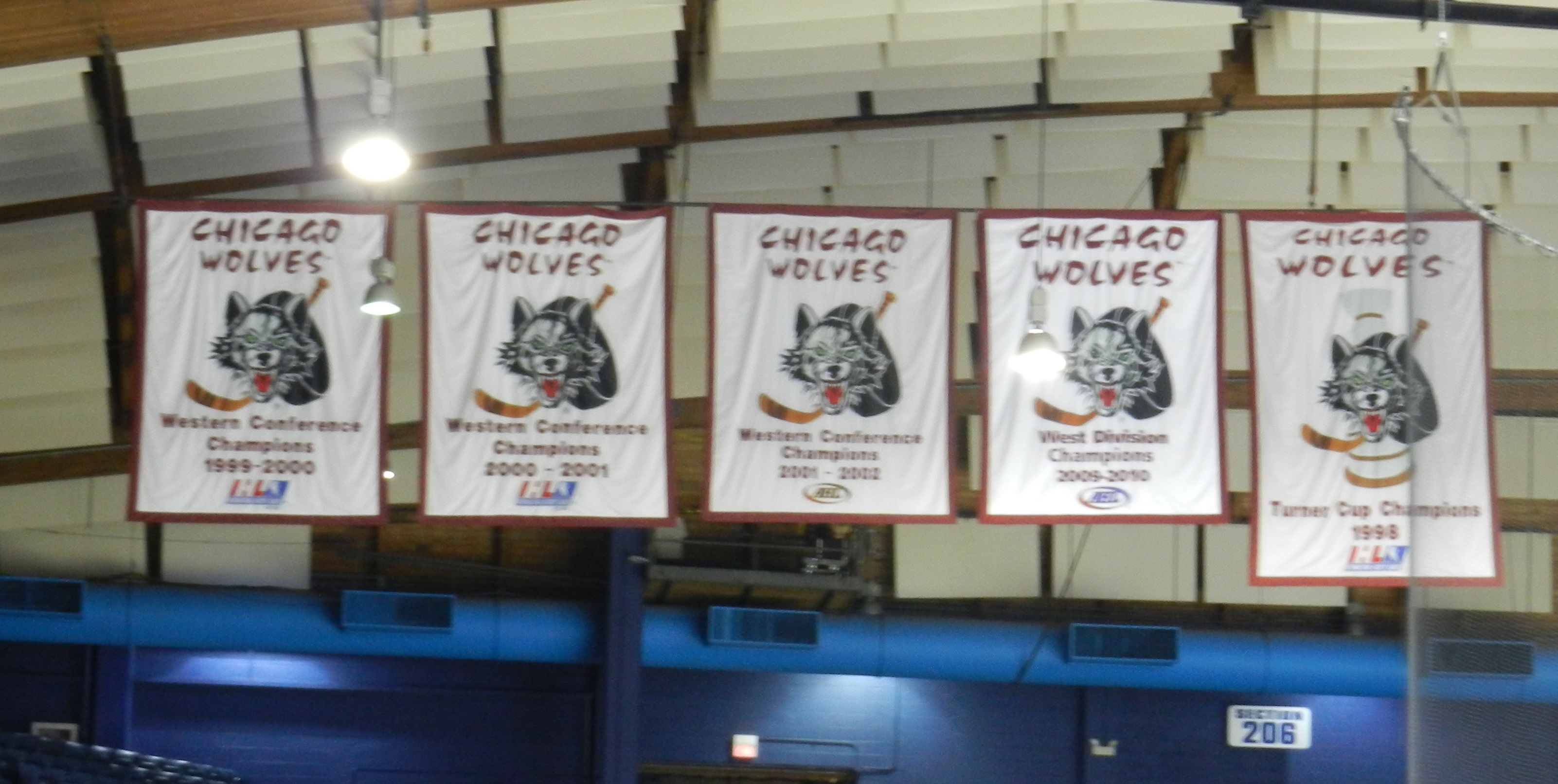 Some of the Chicago Wolves team banners hanging in the Allstate arena. From left to Right: Western Conference Champions 1999-2000 IHL, Western Conference Champions 2000-2001 IHL, Western Conference Champions 2001-2002 AHL, West Division Champions 2009-2010 AHL, Turner Cup Champions 1998 IHL